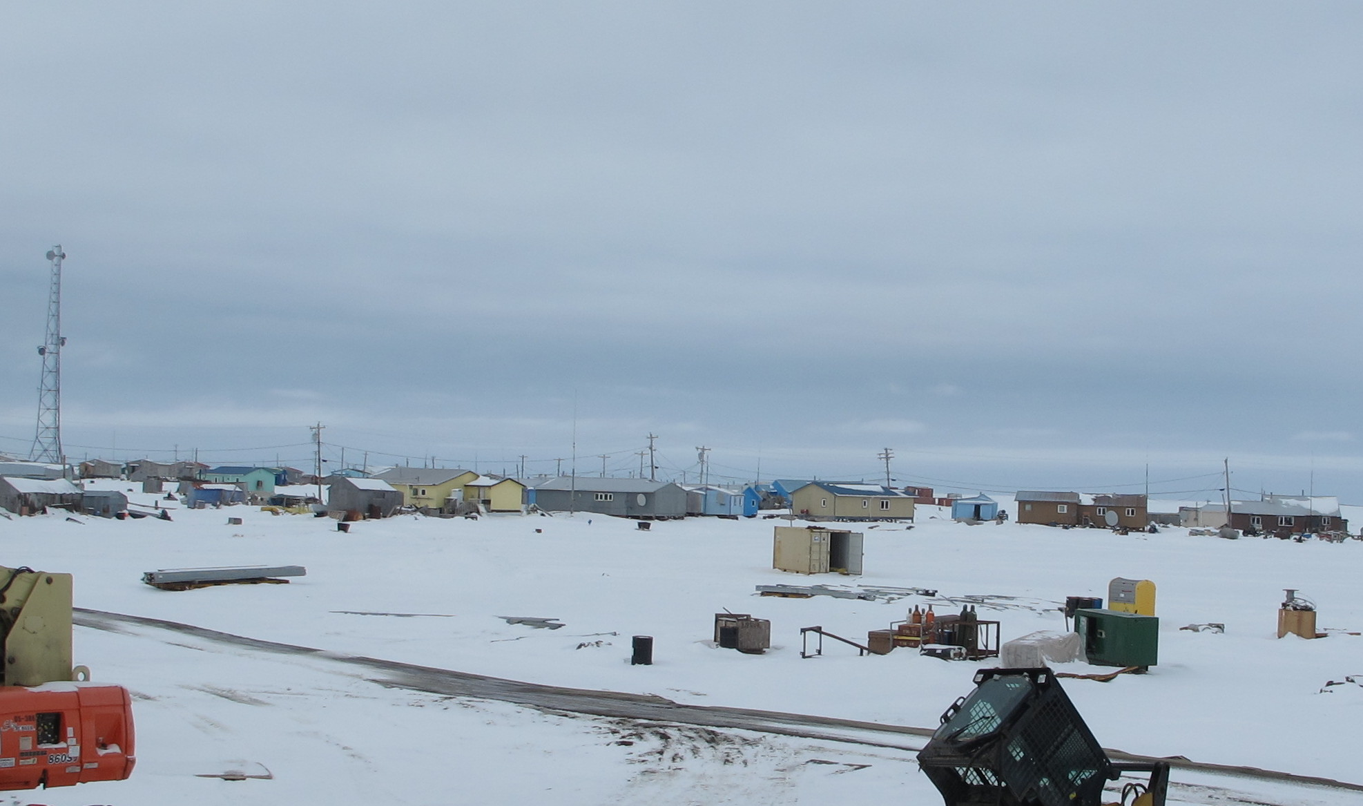 The photo consists of homes, construction machines and snow. This is a little town of Kipnuk that is growing.